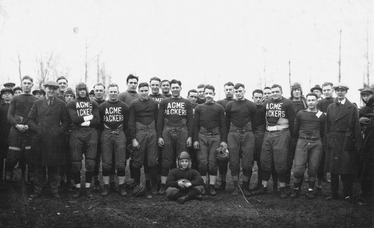 American football team Green Bay Packers in 1921. From left to right: Martell, R. Lambeau, Cook, Abrams, DuMoe, Wheeler, Wagner, Coughlin, Barry, Carey, Murray, Lambeau, Hayes (owner), Book, Schmael, Wilson, Ladrow, ?, Howard, Klaus, McLean, Powers, Le Clair.